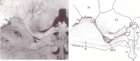 photograph and drawing of the anterior internal carapace of an Elseya dentata